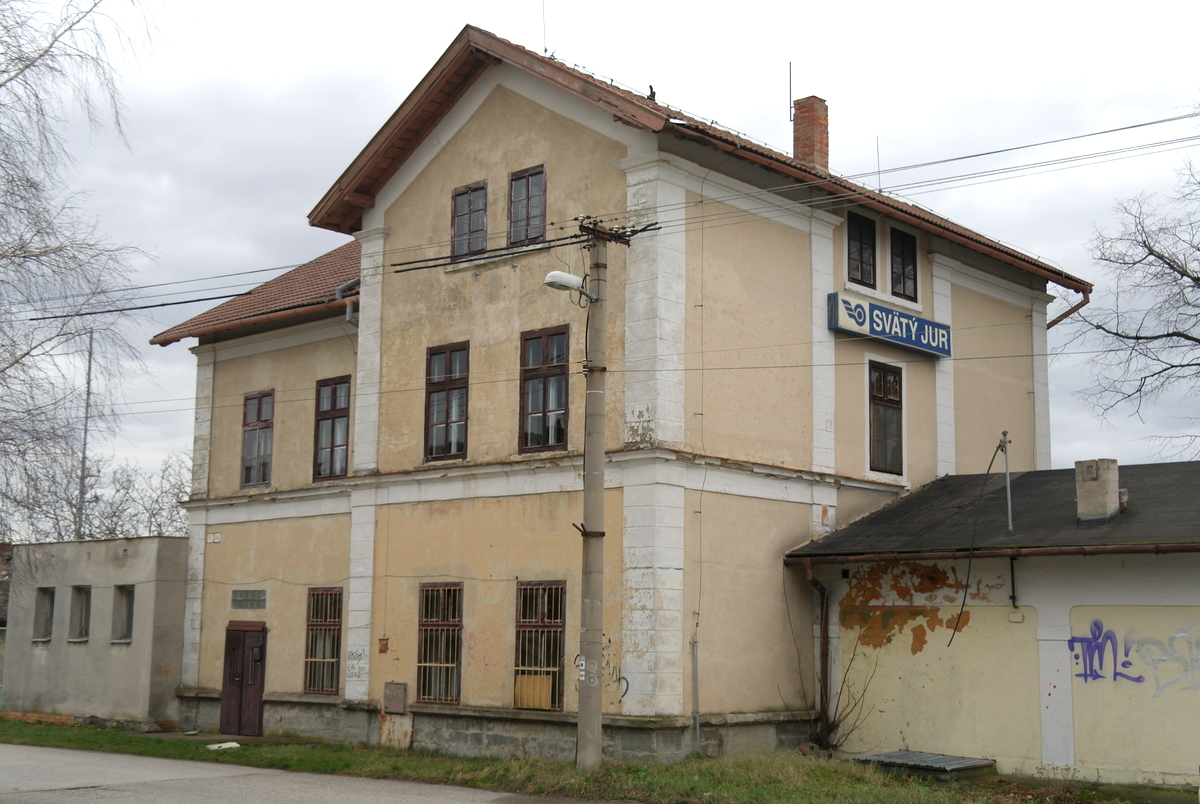 Railway station Svätý Jur, station building, view from the street. Railway line no. 120.